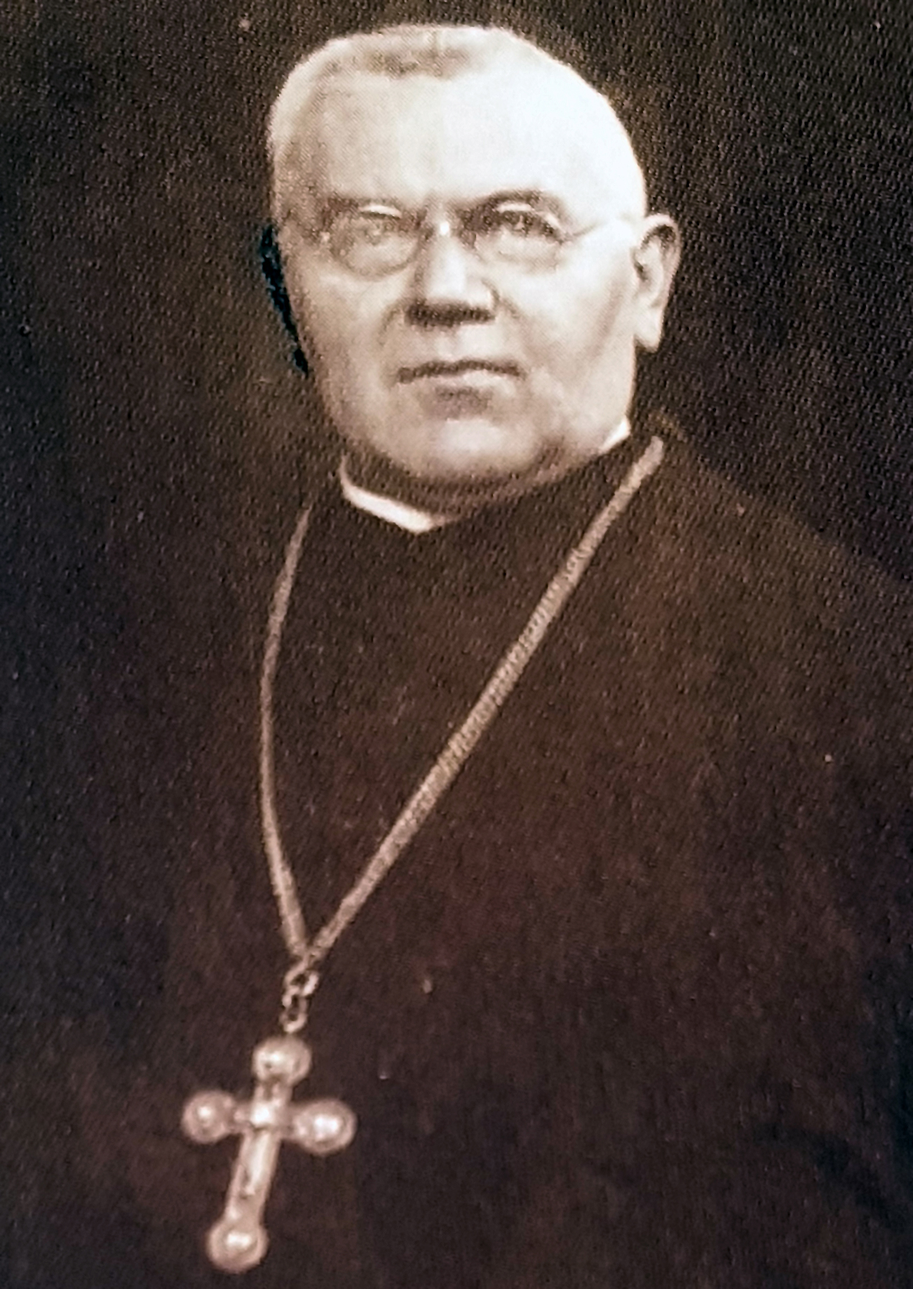 Unter Abt Konrad Kolb wurde die Schule gegründet